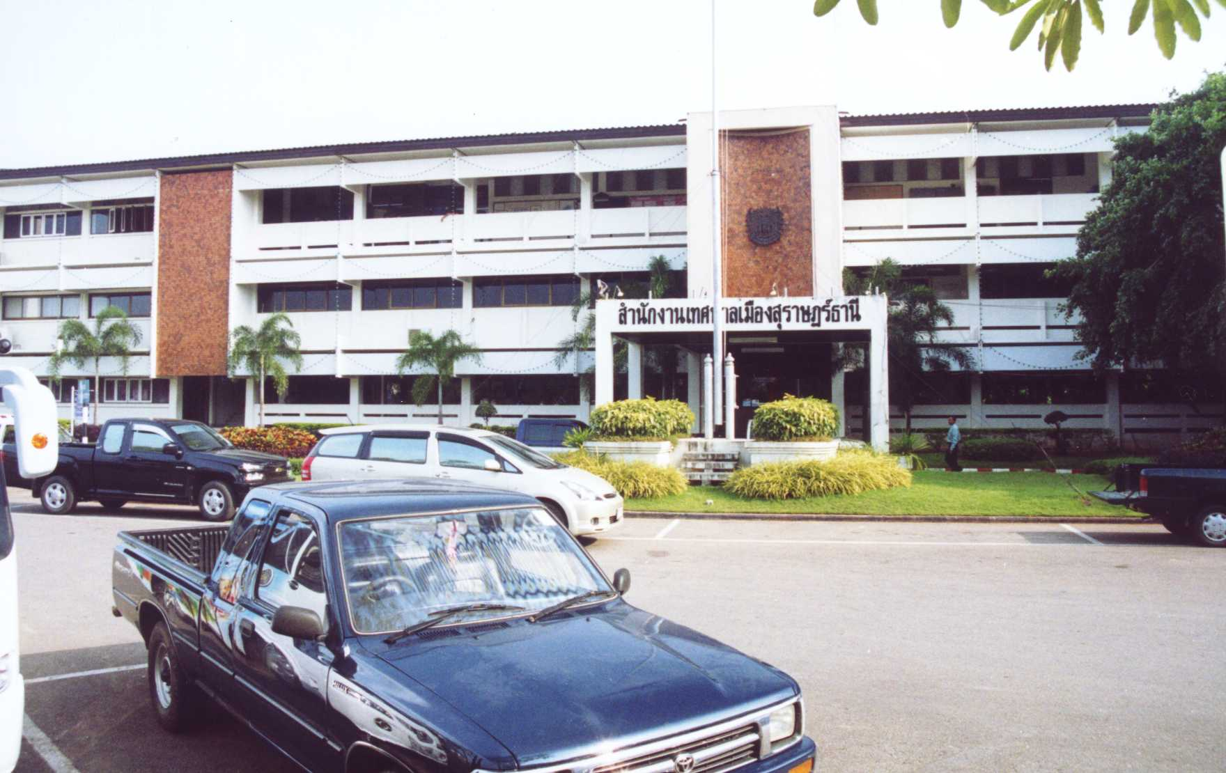 Town hall of Thesaban Mueang Surat Thani, Thailand. Photo taken by User:Ahoerstemeier taken on January 27 2006.